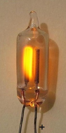 Small neon lamp, type NE-2, 1.9 cm (0.75 in) long, powered by DC. It consists of a glass bulb containing neon gas at low pressure, with two wire electrodes in it. When the voltage across the lamp exceeds about 70 volts the gas ionizes and the lamp turns on. The glow discharge which is responsible for the light output comes from the cathode (negative) electrode on the left.